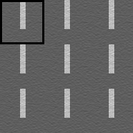 3D texture addressing mode: repeat. For use in Arabic Texture Addressing article on Wikipedia.